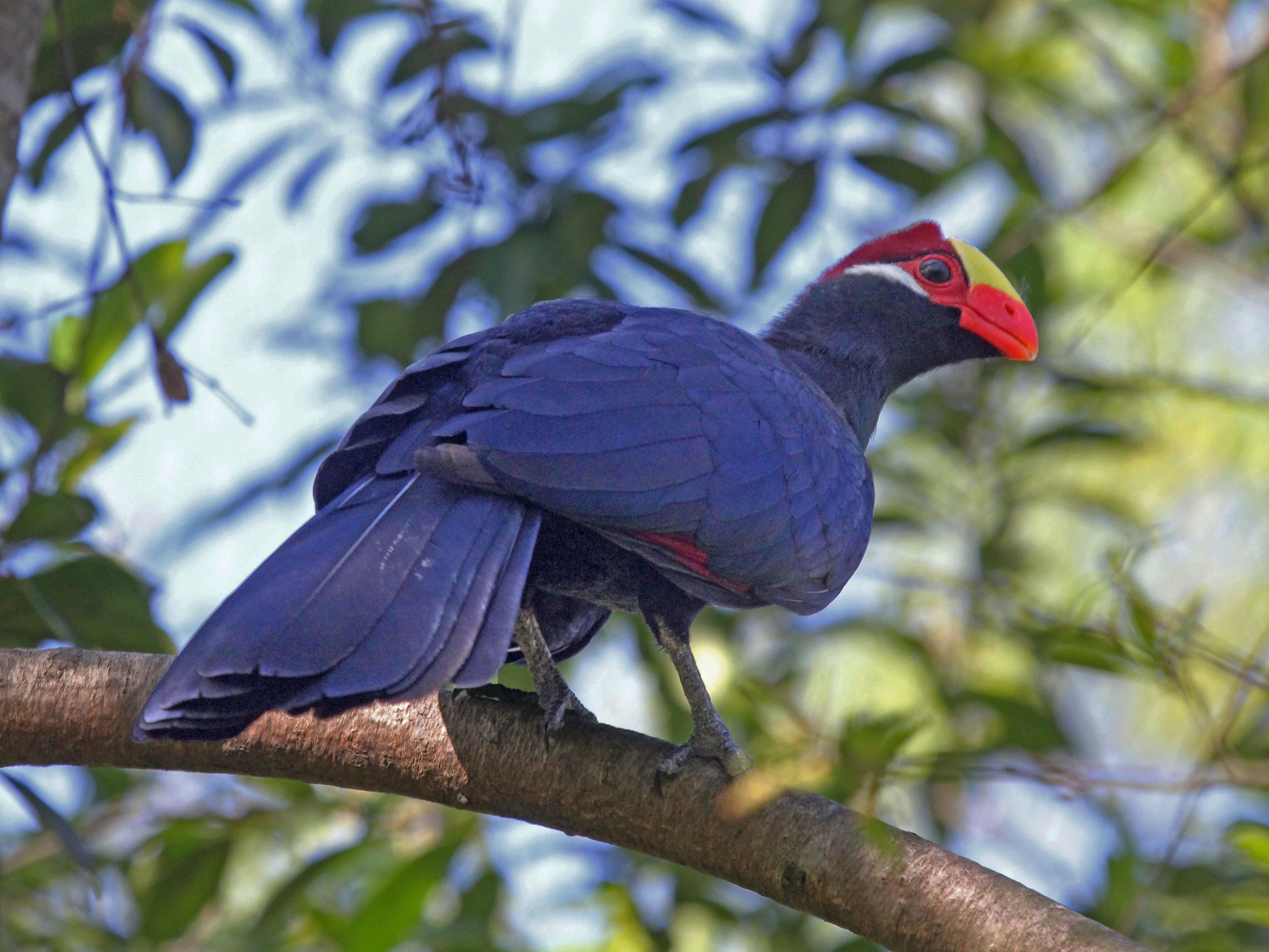 Violet Turaco (Musophaga violacea) - Jacksonville Zoo, Florida